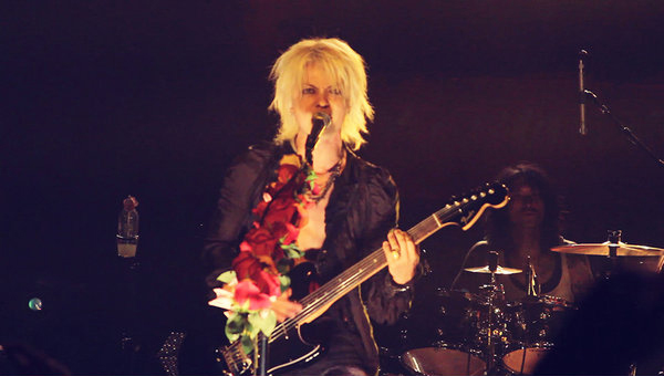 This photo of HYDE was taken at the Roseland Ballroom in New York City during his concert with VAMPS.